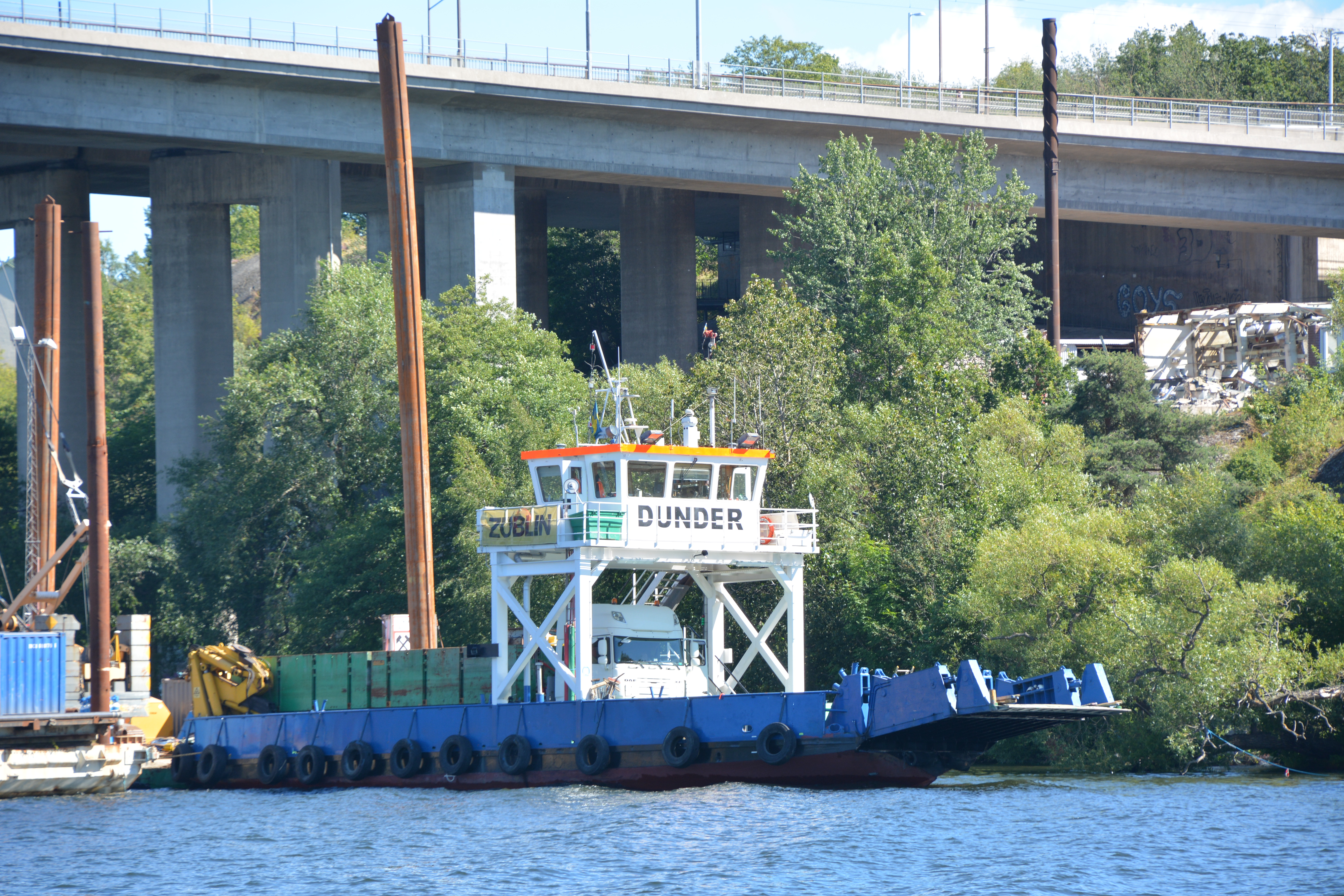 M/S Dunder, earlier car ferry Vägverket M/S Färja 61/221, built 1958